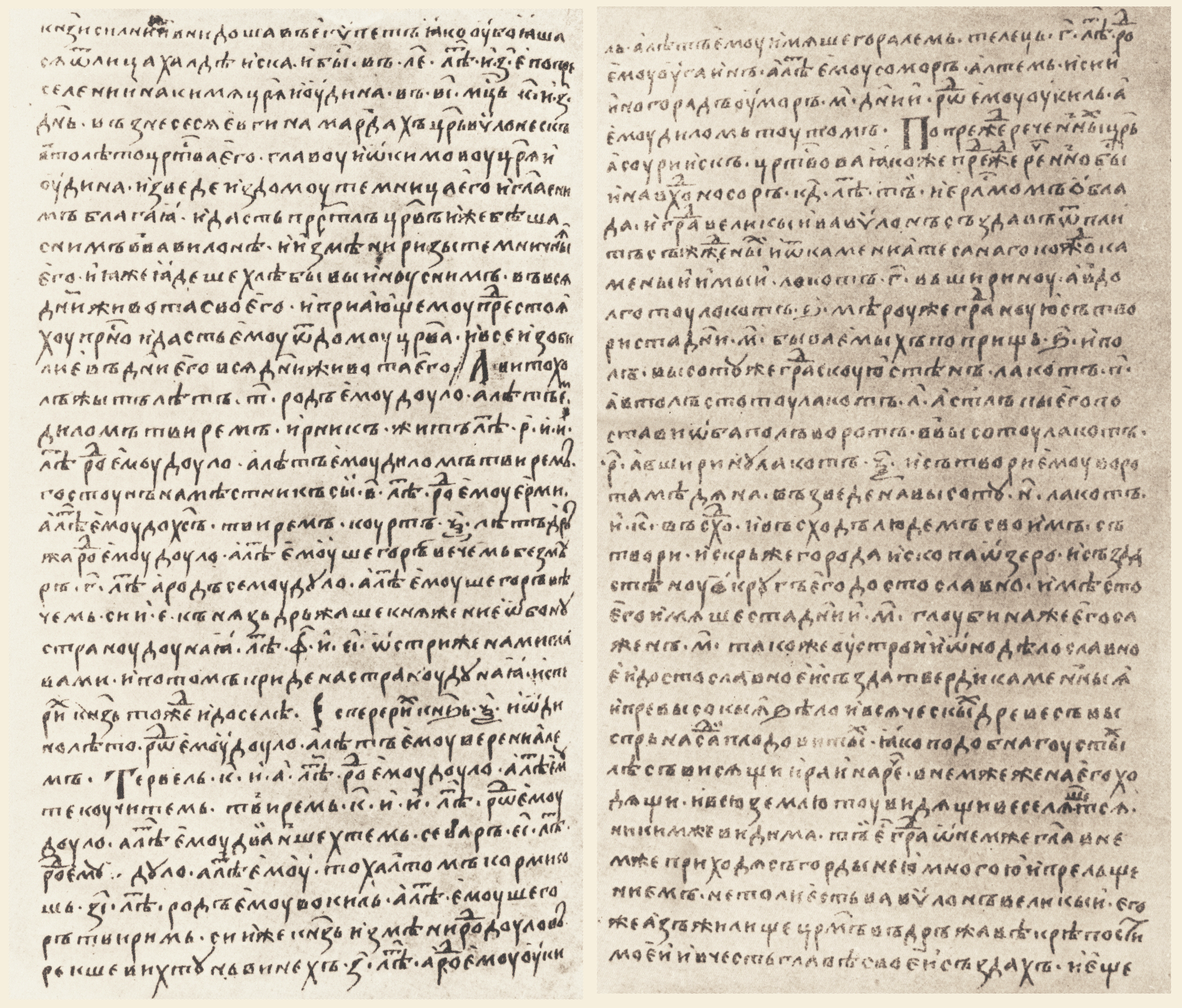 Nominalia of the Bulgarian khans, Moscow (sinodic) manuscript, No. 280, Moscow State Historical Museum